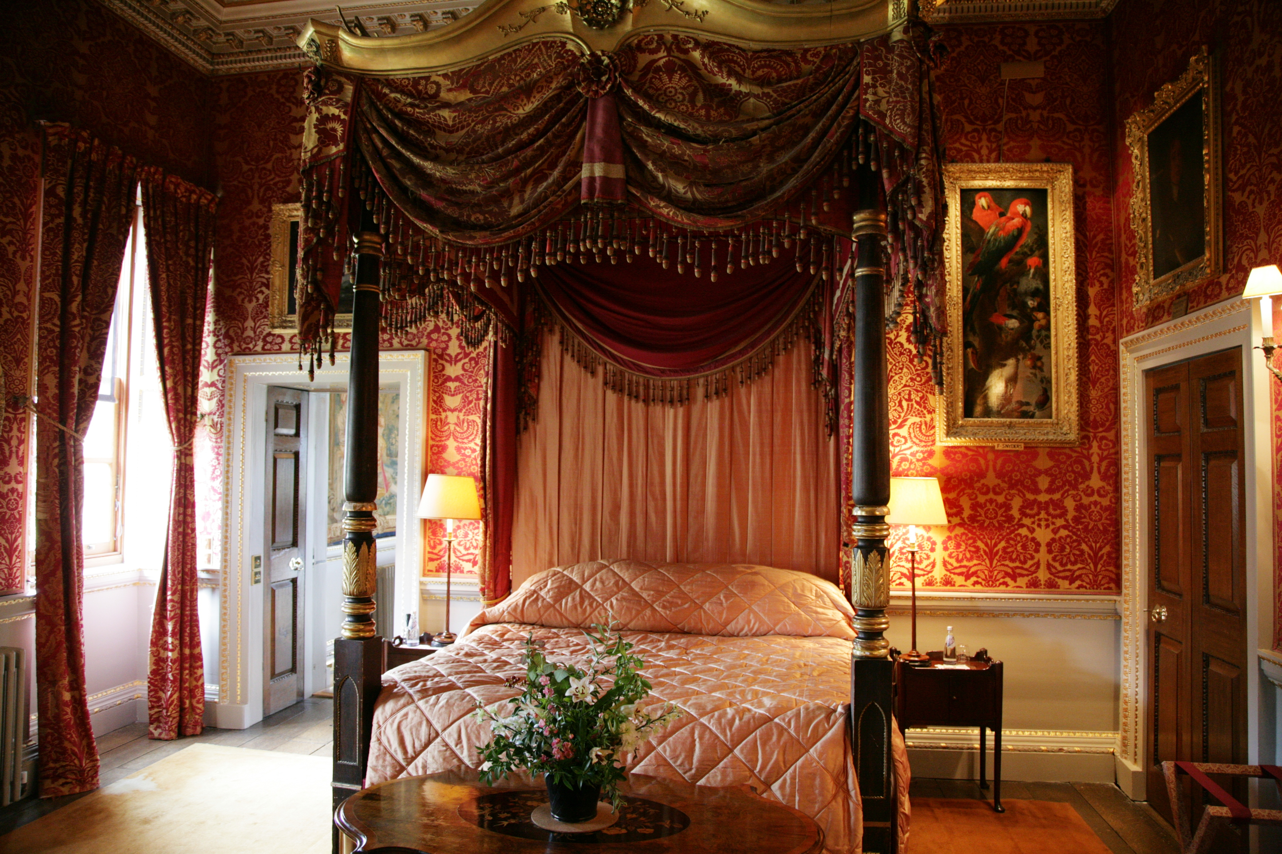 Holkham Hall in Norfolk. The Parrot Room